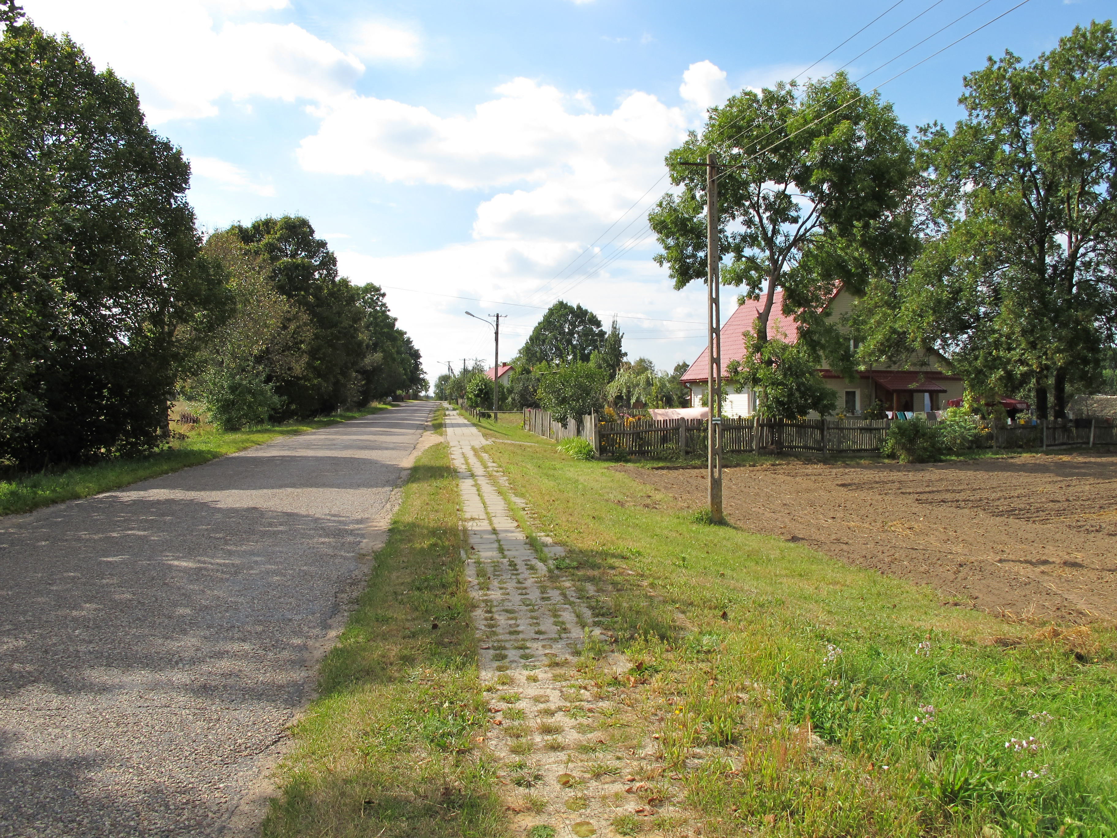 VR686 at Juszkowy Gród village, gmina Michałowo, podlaskie, Poland